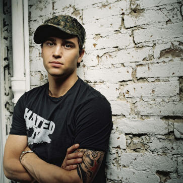 cosmo klein in a wall